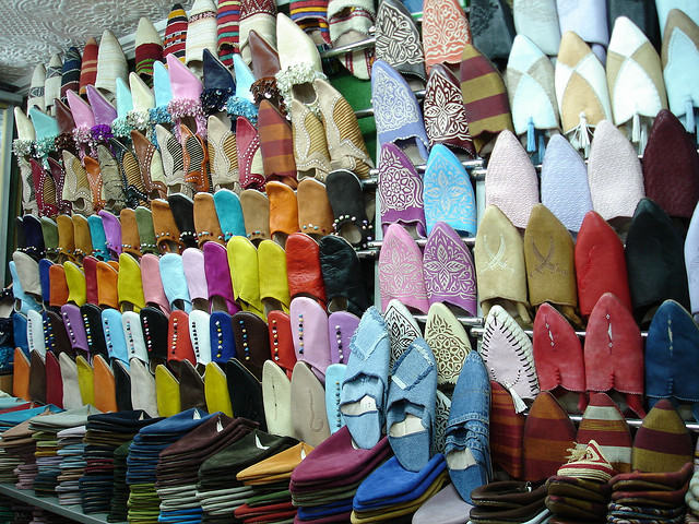 Babouch Galore